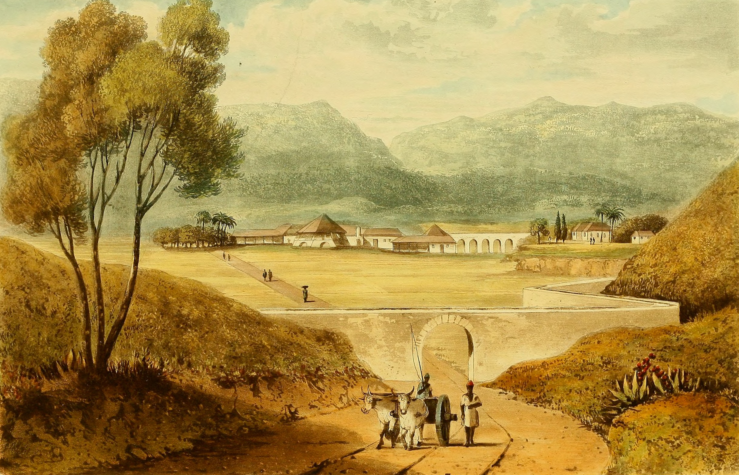 Whitney Estate, Clarendon. – The property of Viscount Dudley & Ward.